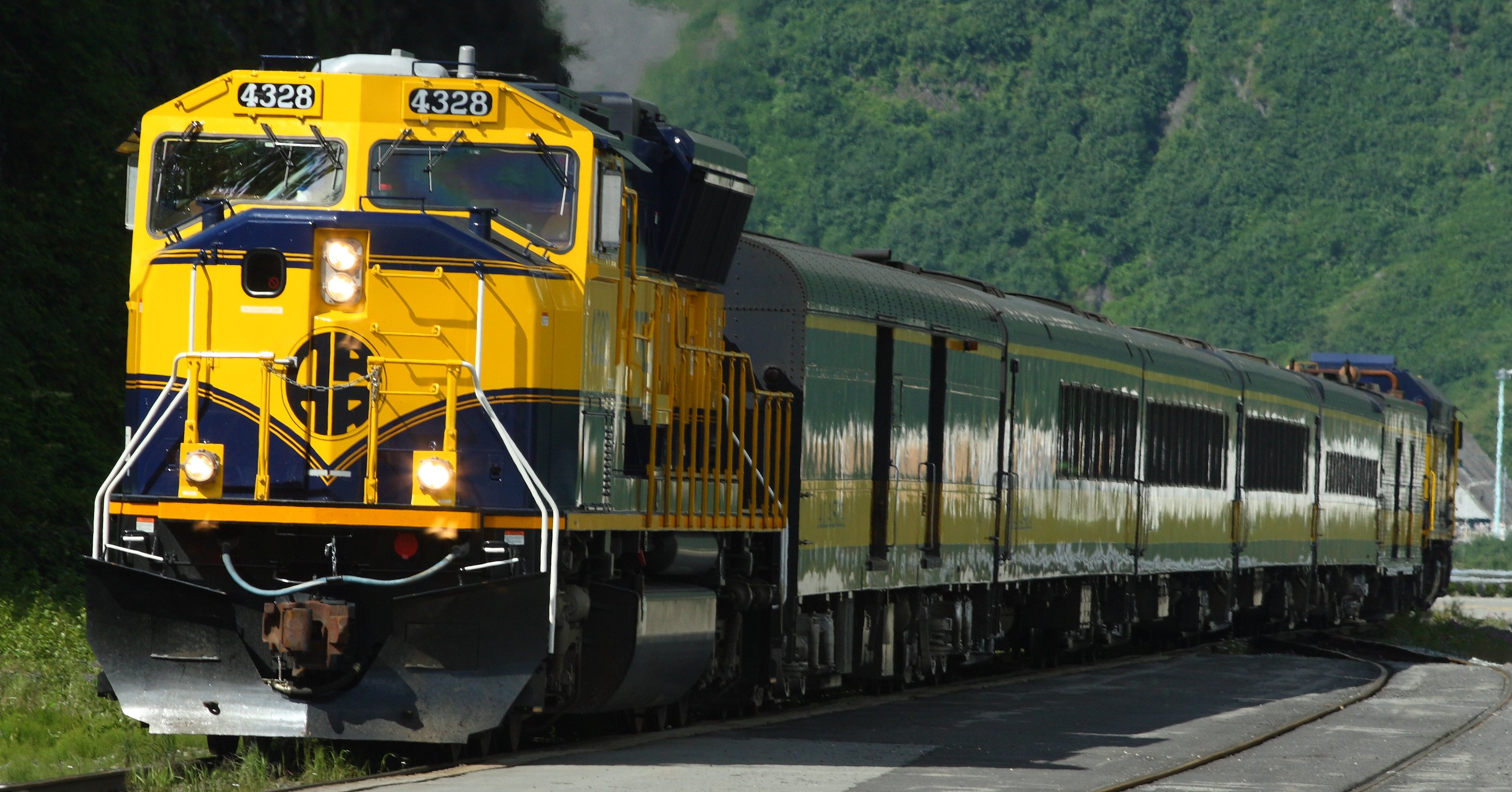 Taken on a glacier cruise out on Prince William Sound out of Whittier, Alaska in July 2008.